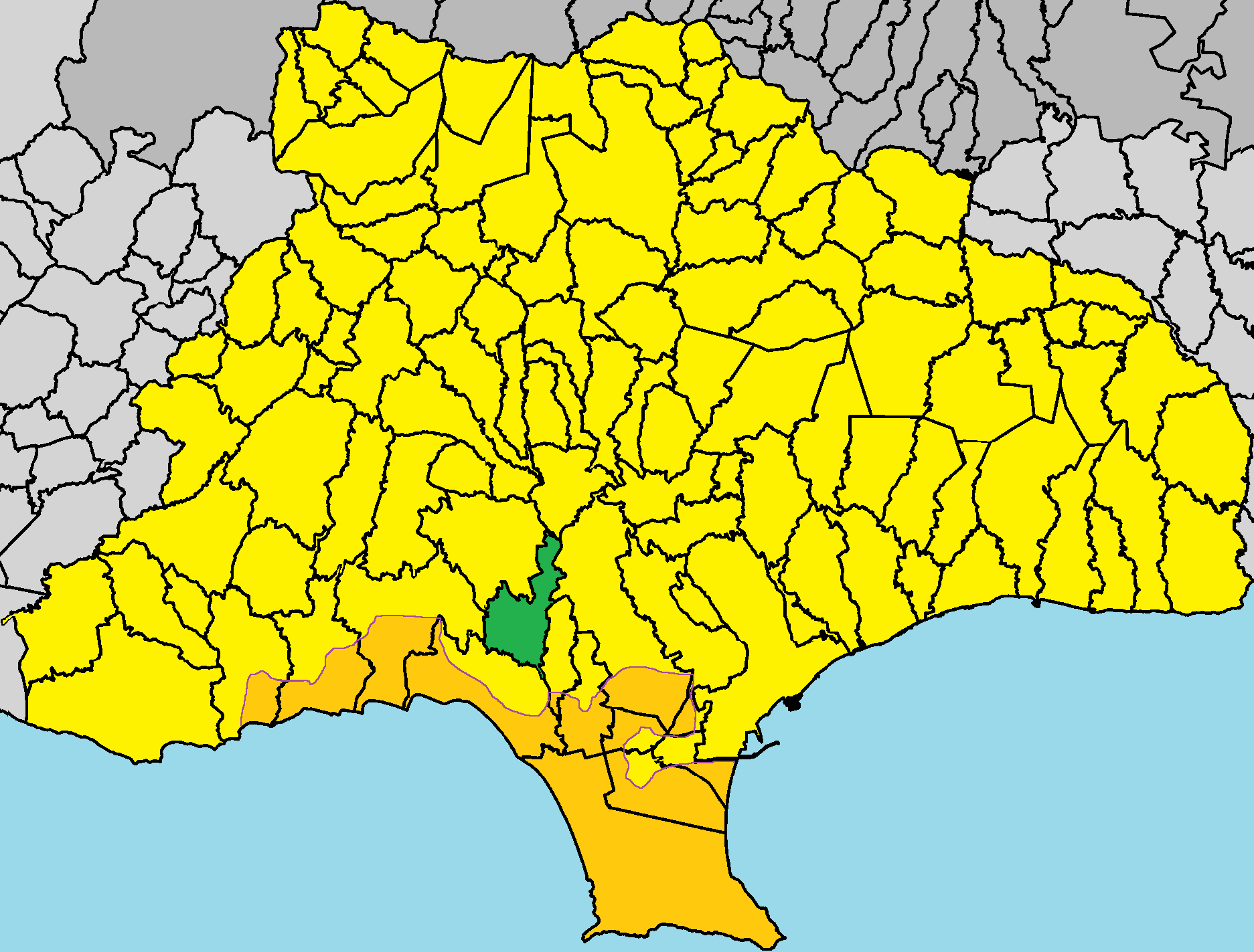 Kantou, Cyprus in Limassol District.